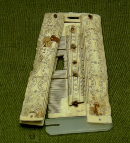 Double-sided bone comb with folding case and circle eye decoration from the 7th century.